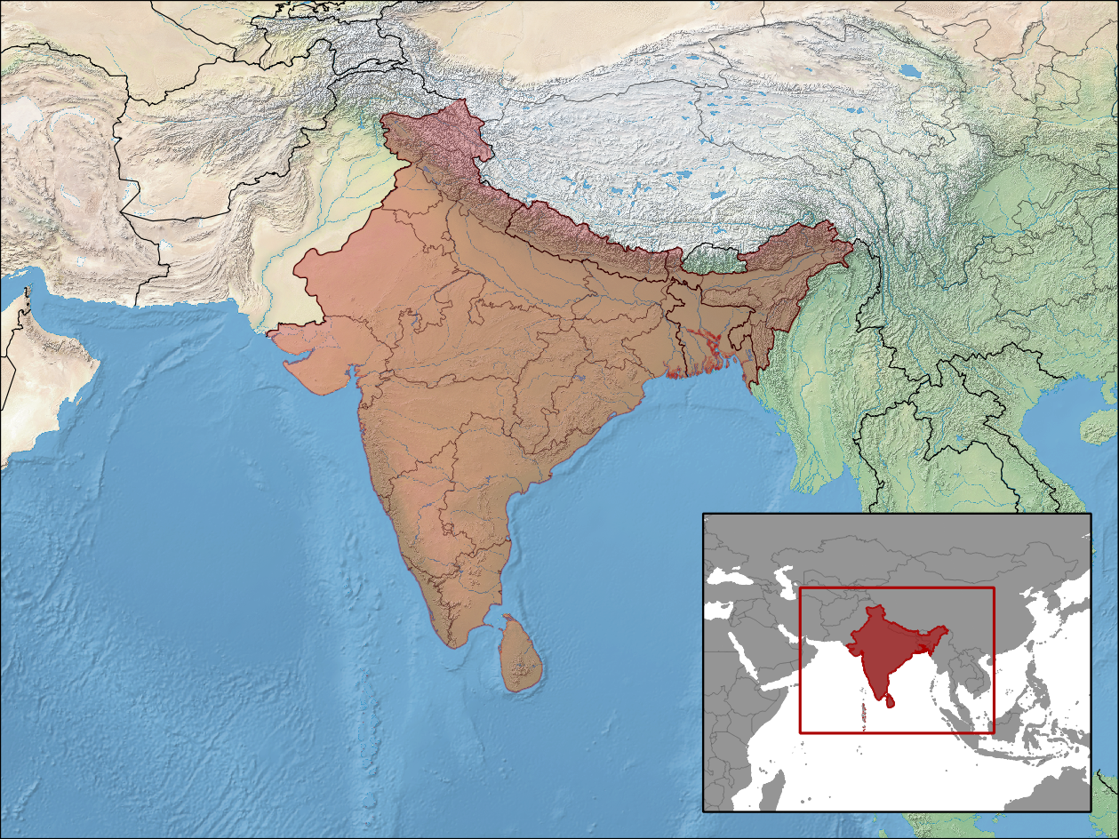 geographic distribution of Eutropis carinata